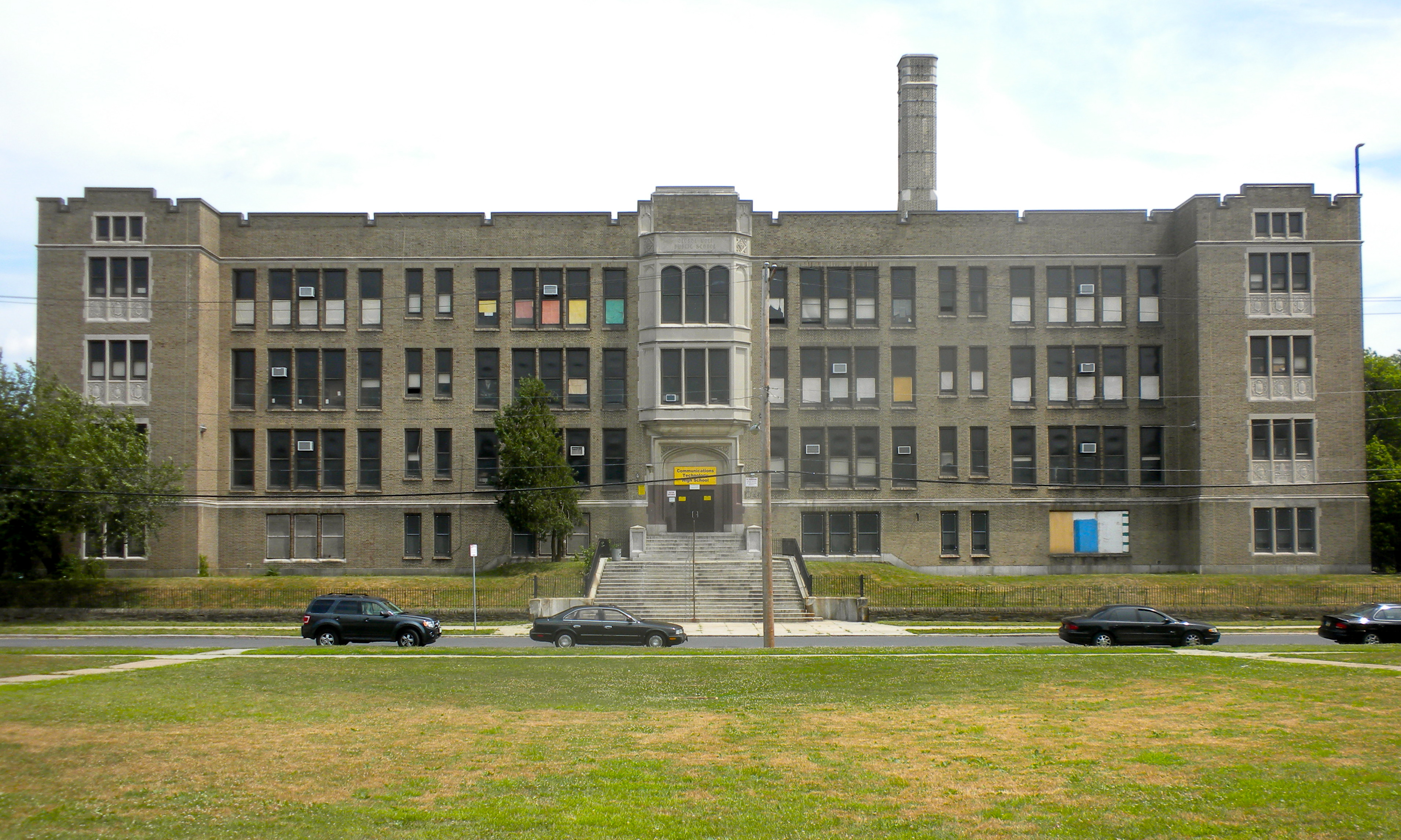 George Wolf School on the NRHP since November 18, 1988. At 8100 Lyons Avenue in Hedgerow neighborhood of SW Philadelphia